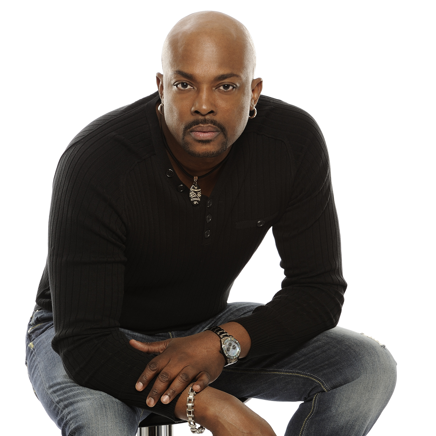 Promo shots of Anslem Douglas for album Project A.D. 2012